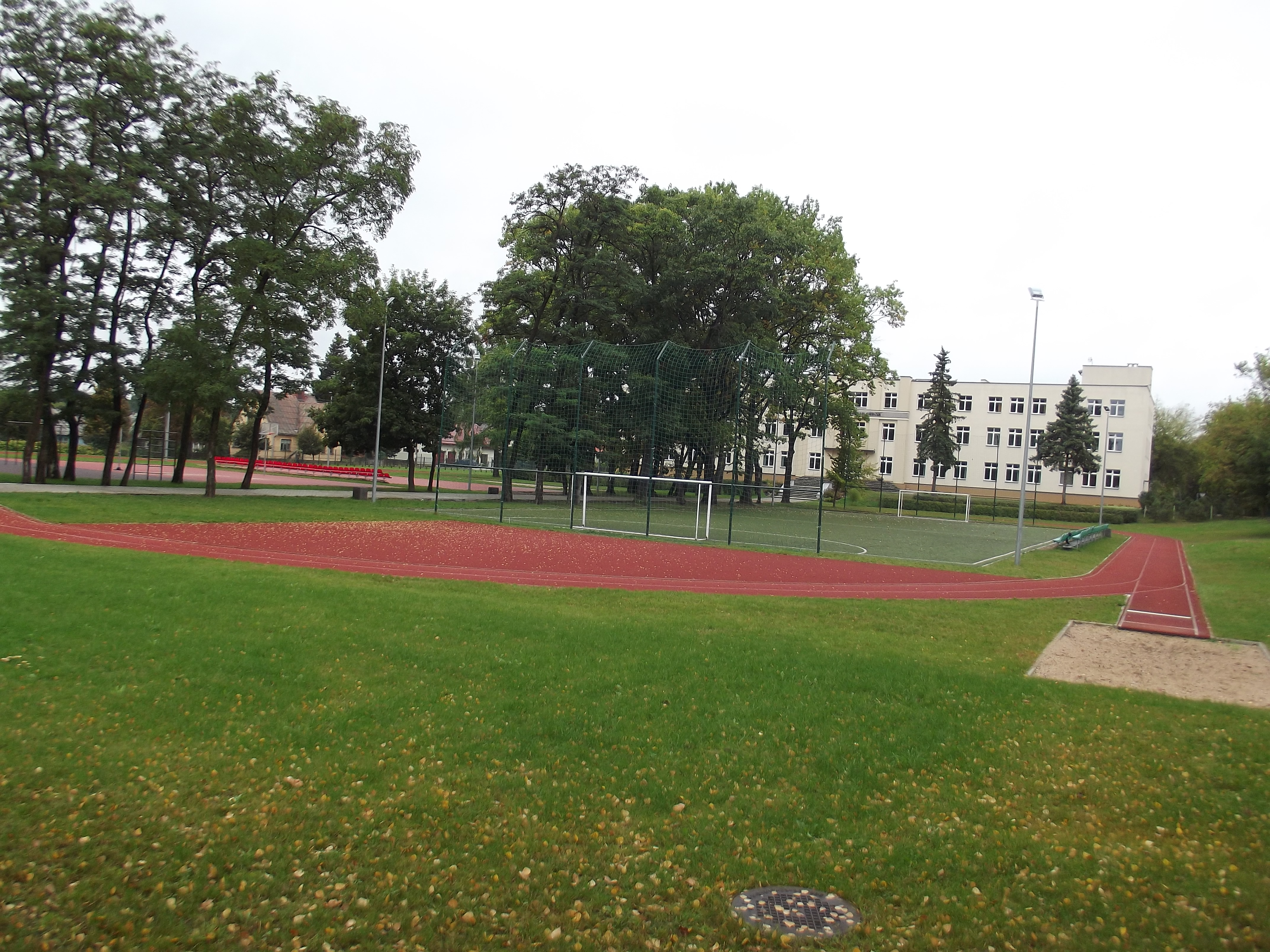 Kazys Grinius Gymnasium in Kazlų Rūda, Lithuania